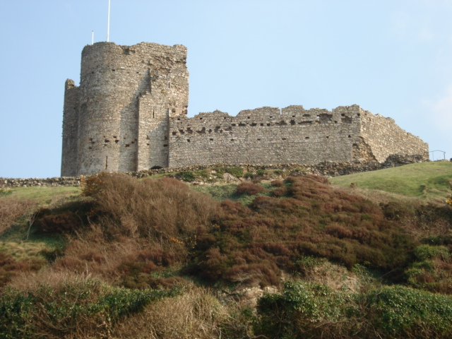 Criccieth Castle Built by Llywelyn the Great in about 1230.